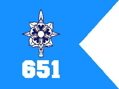 guidon of 651st Military Intelligence Company (United States)